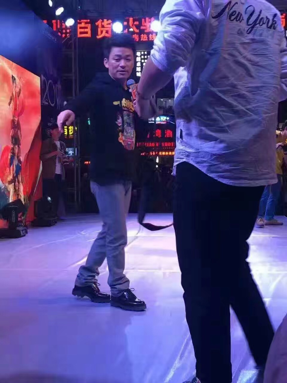 Wang Baoqiang was in Dongguan to promote the film Buddies in India, on December 31, 2016.